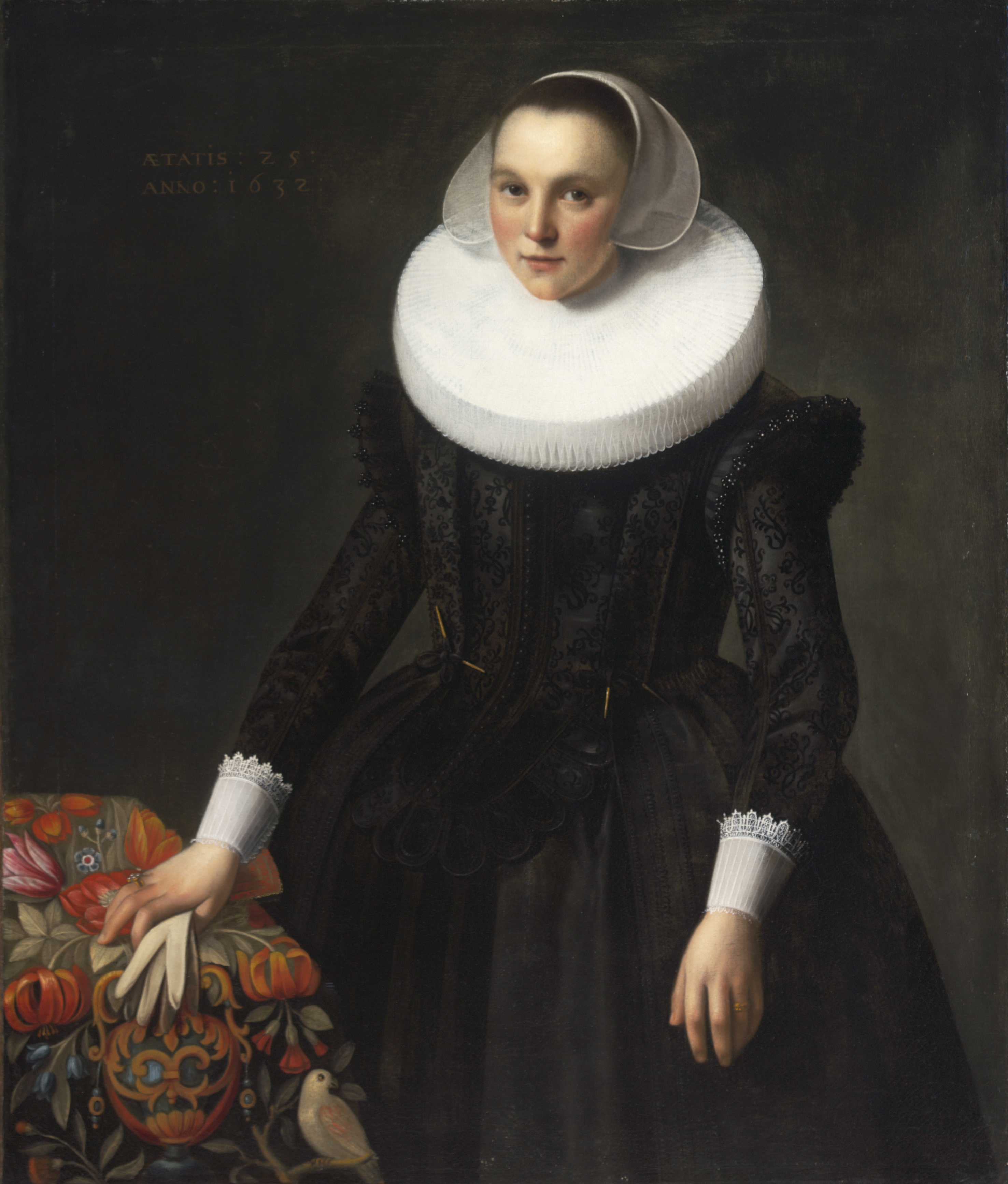 Portrait of a 25-year-old Woman